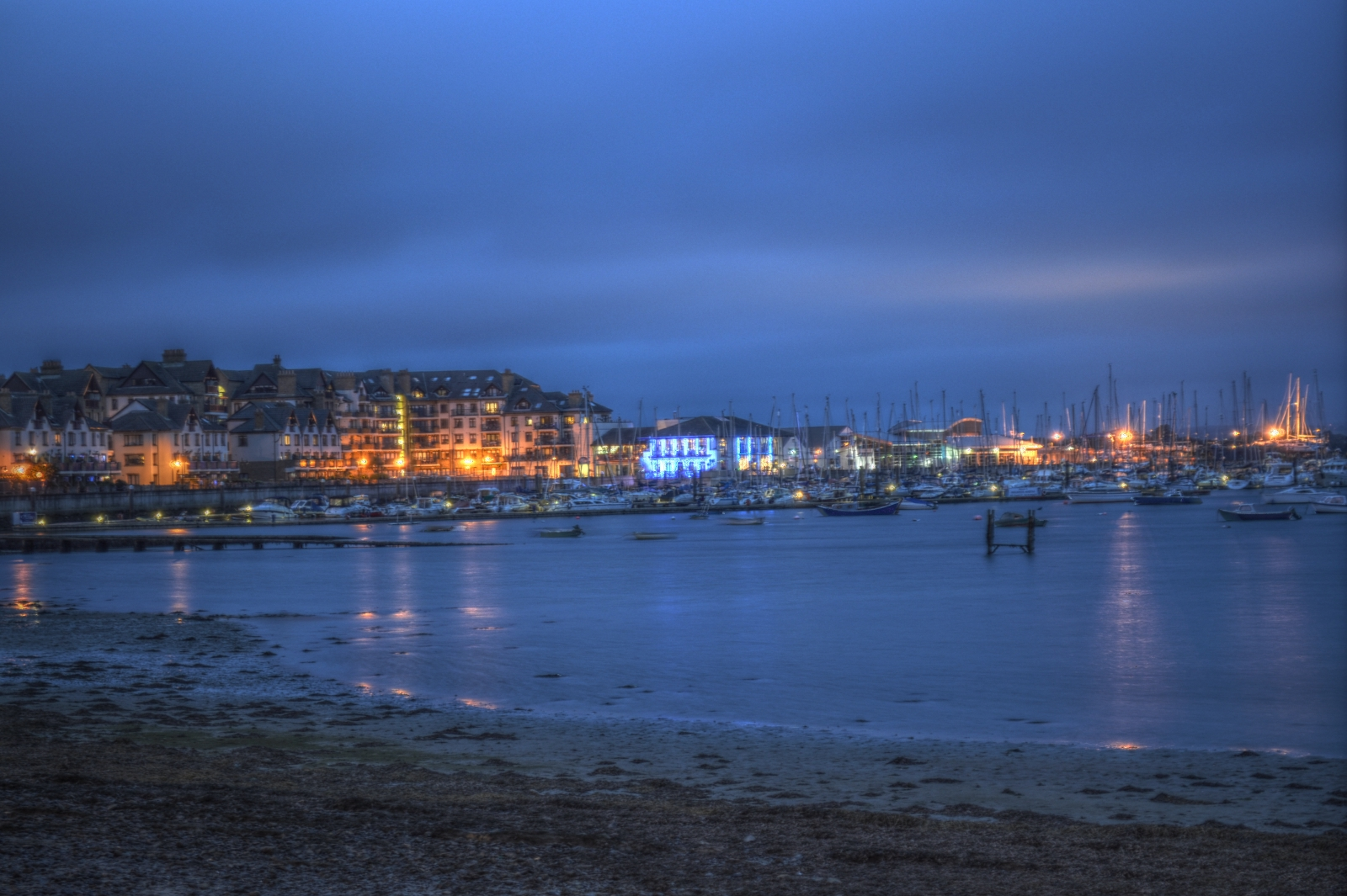 Camera: Nikon D5000 3 exposures: -2, 0, 2 EV Luminance HDR, Mantiuk '06, Saturation set to 1.2